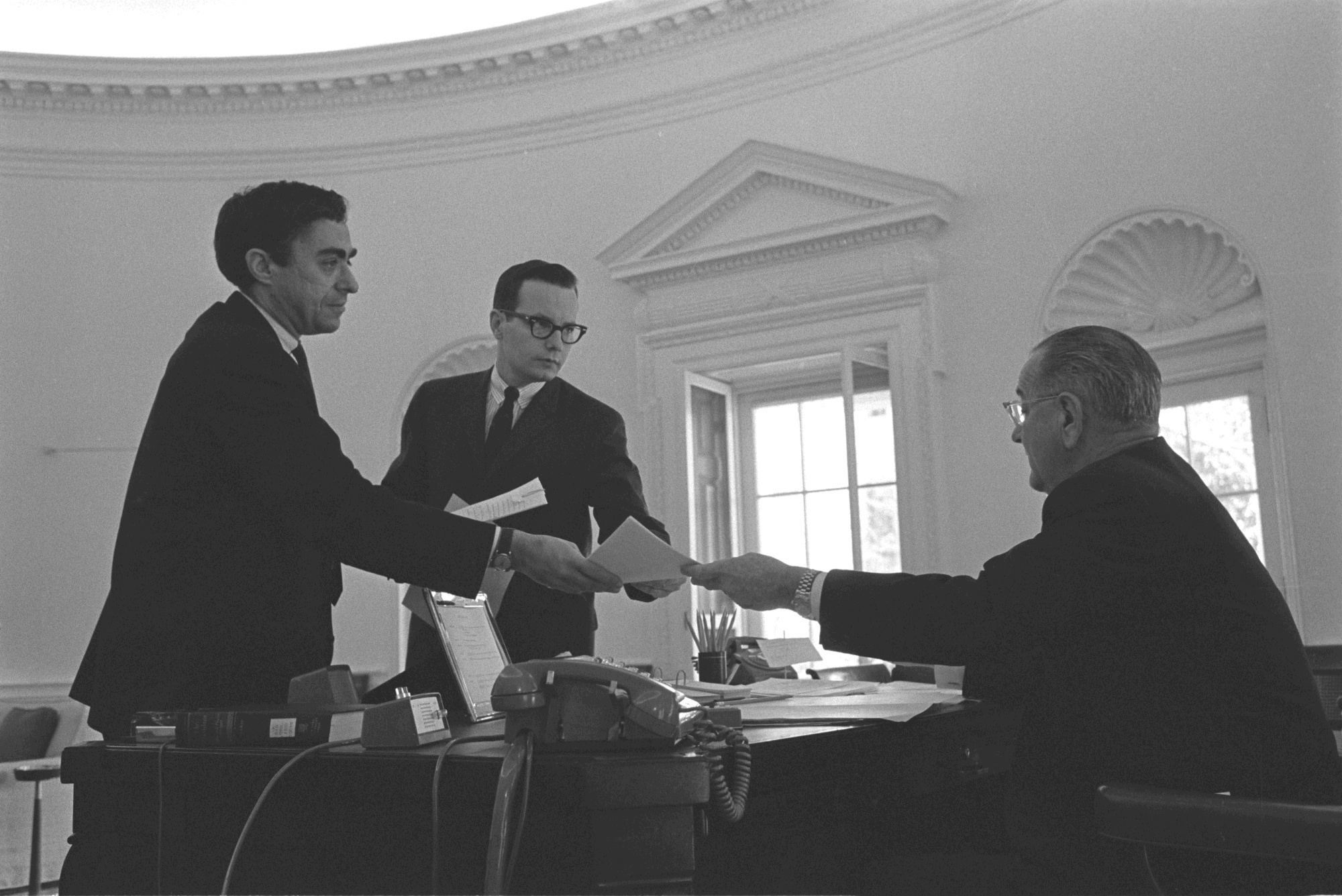 L-R: Dick Goodwin, Bill Moyers, President Lyndon B. Johnson